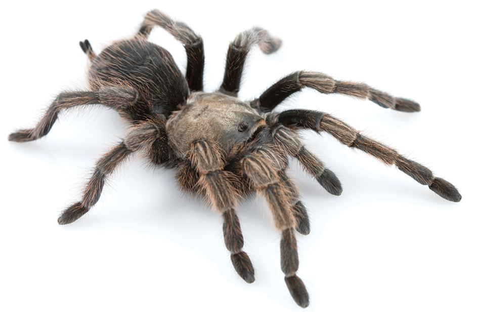 Aphonopelma johnnycashi female